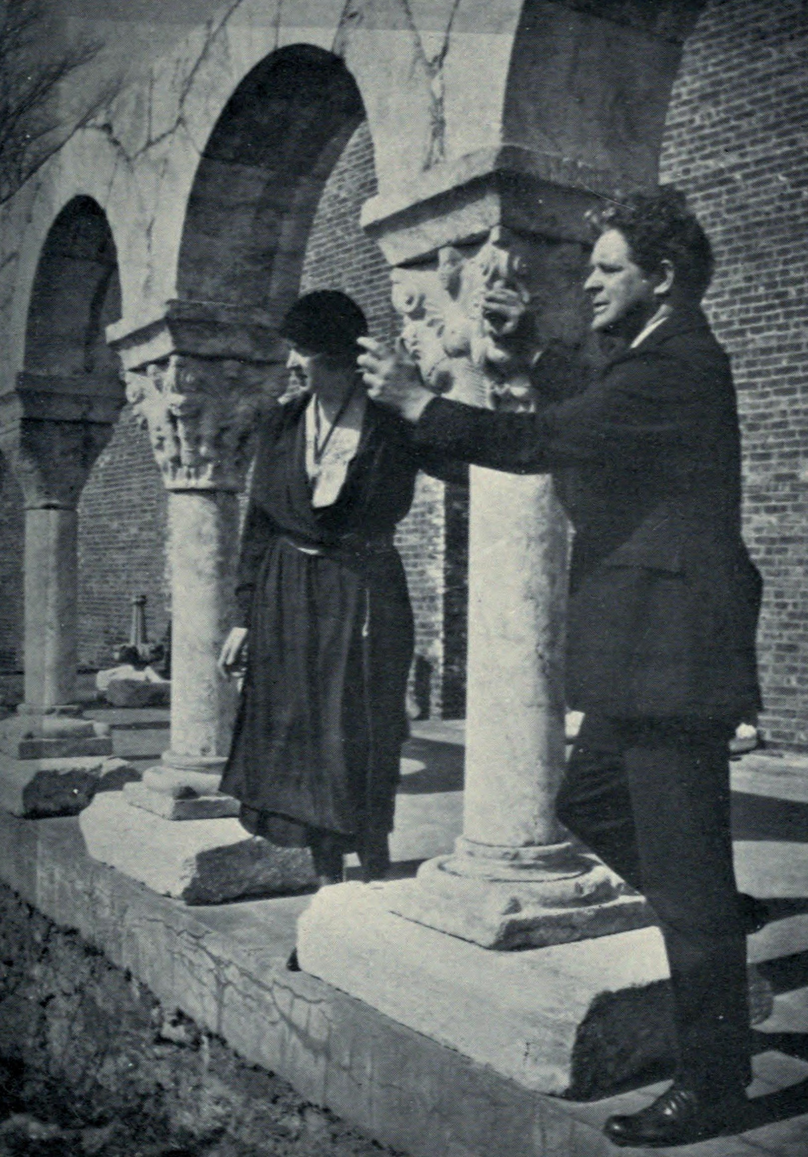 "George Grey Barnard describing his cloisters to Clare Sheridan."